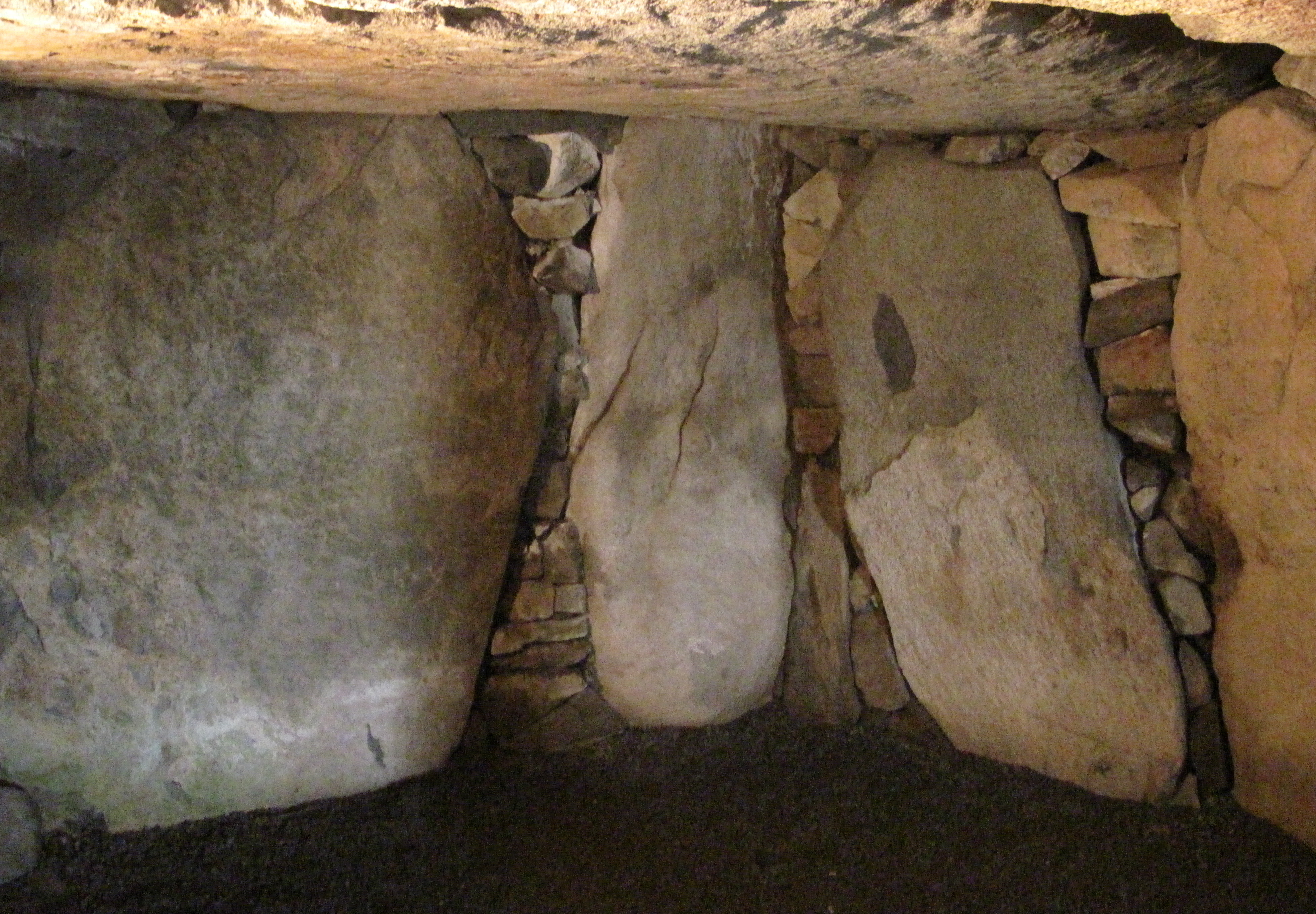 Guernsey, July 2011